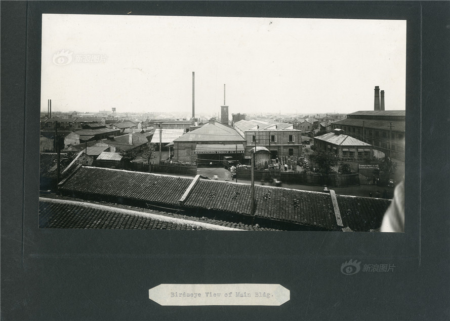 The factory of HENNINGSEN PRODUCE COMPANY in Shanghai, China in 1930s.中文（中国大陆）: 1930年代的上海海宁洋行，此为上海益民食品一厂的前身。吴语: 1930年代个上海海宁洋行，个是上海益民食品一厂个前身。